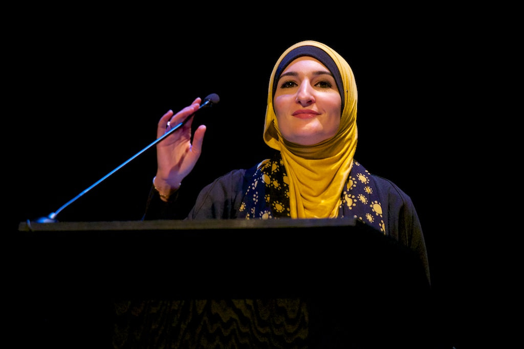 2016 Festival of Faiths "Sacred Wisdom, Pathways to Nonviolence" panel discussion on the theme of Media & the Public Trust. Elna Botha-Boesak, Linda Sarsour, Rajiv Mehrotra, Molly Bingham, and Jonathan Montaldo (moderator).